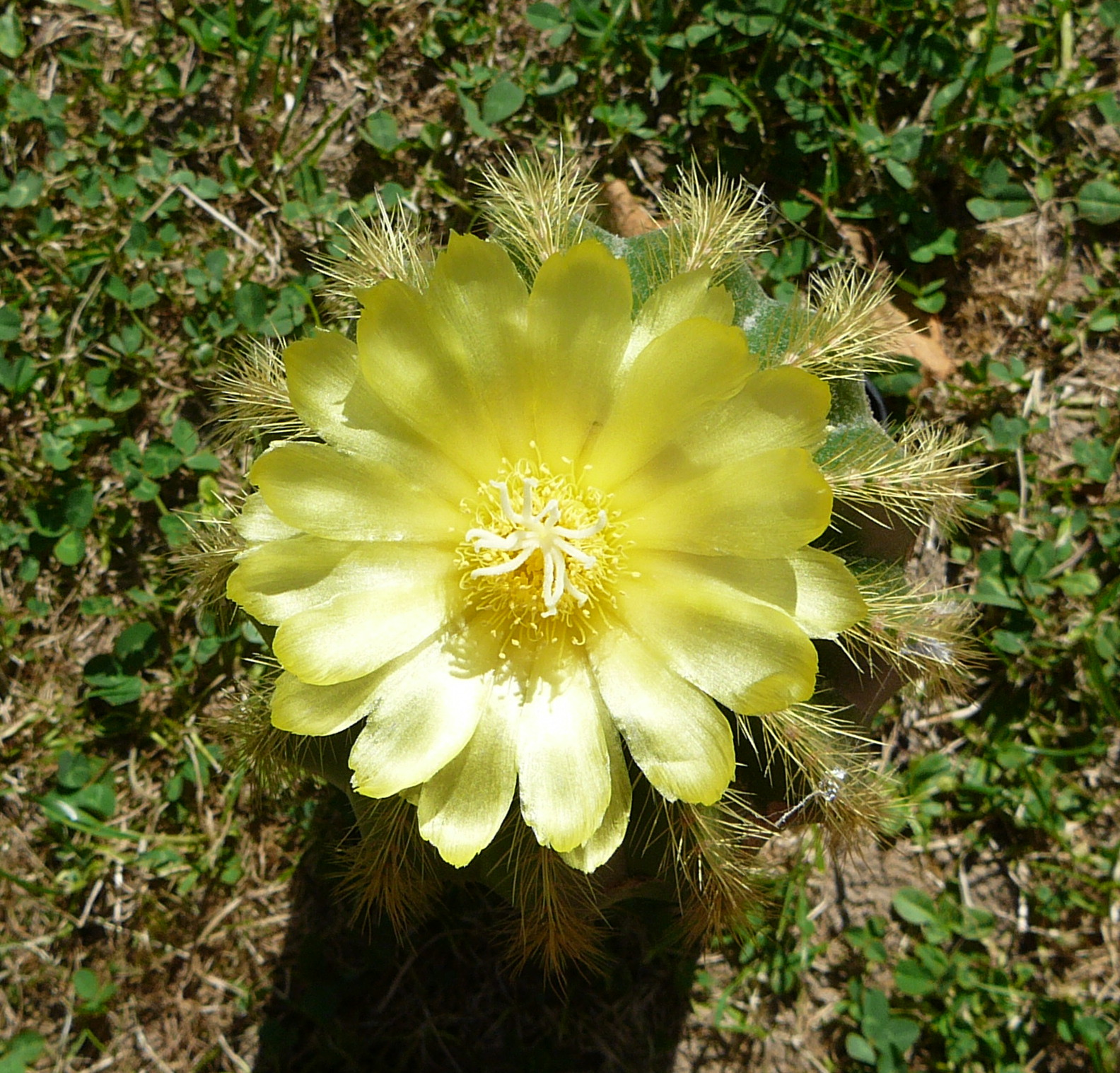 Cactus with flower